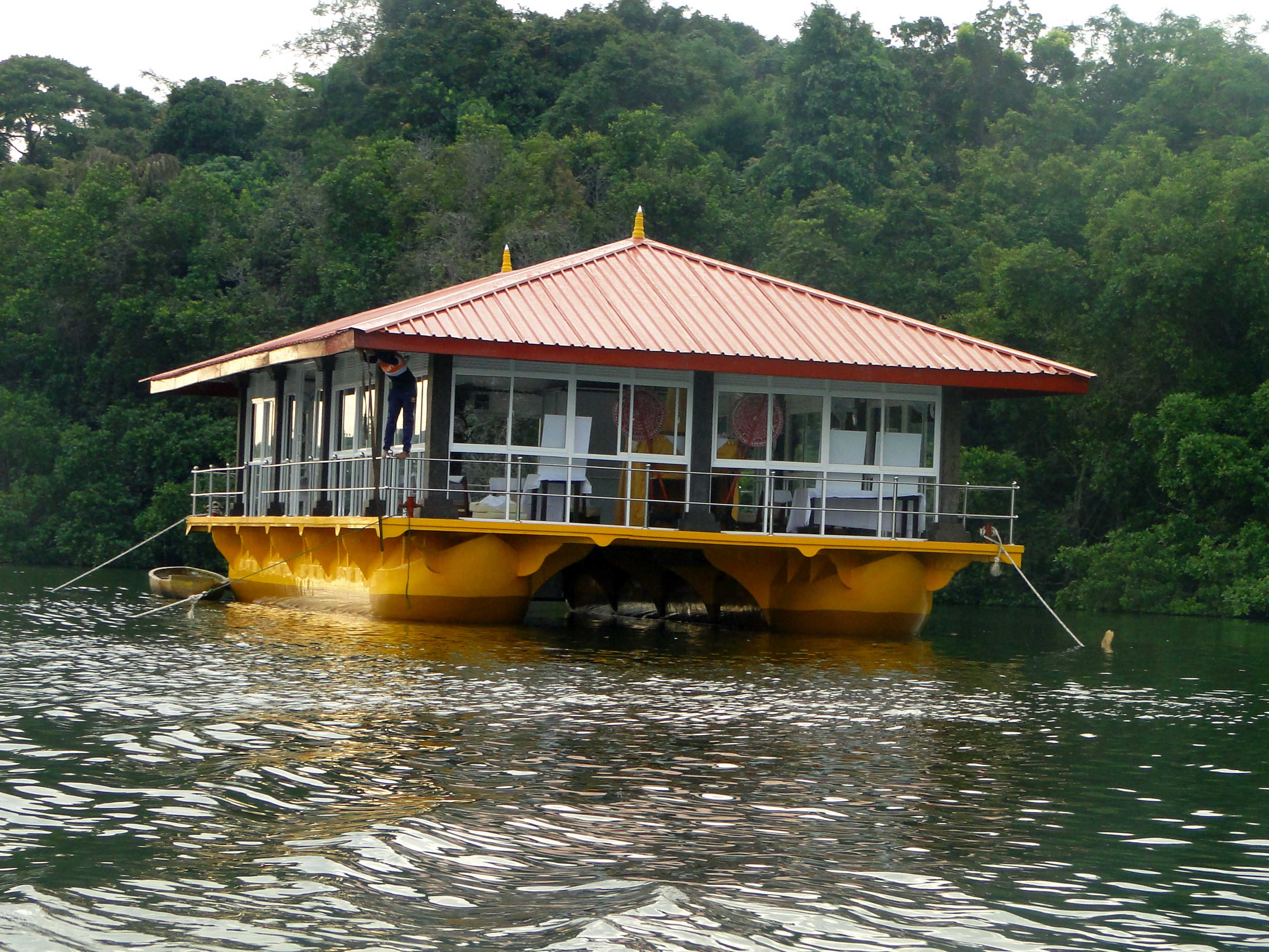 This is the latest Chapter House at Island Hermitage.